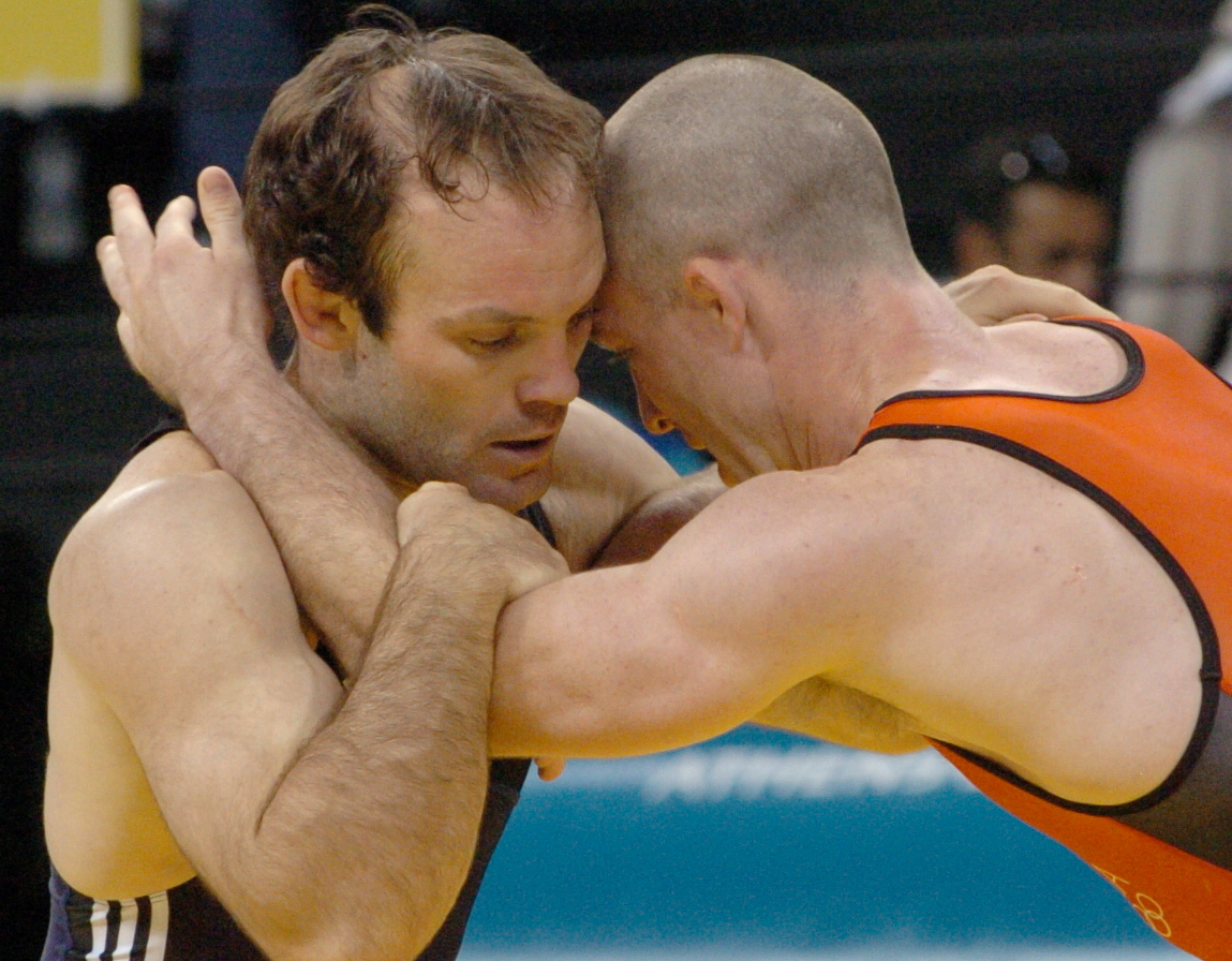 2004 Summer Olympics - Army World Class Athlete Program - FMWRC - U.S. Army - Official Image Archive - Athens Greece - XXVIII Olympiad